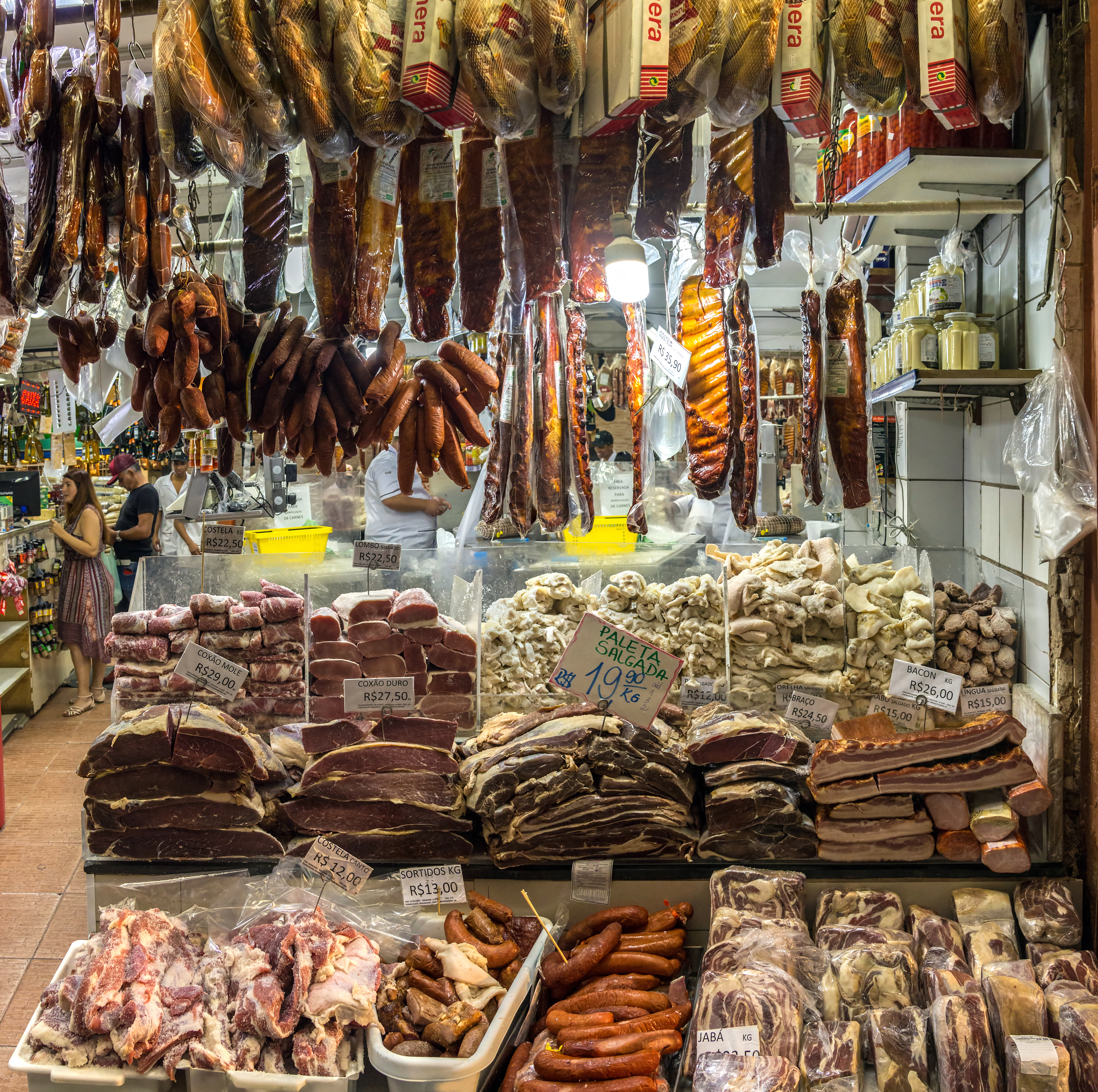 Mercado Municipal of São Paulo, Brazil